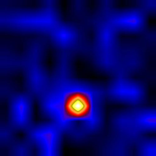 The X-ray emitter Cygnus X-1, in the constellation of Cygnus, as imaged by a balloon bourne telescope. The balloon was launched for the High Energy Replicated Optics project on May 23, 2001, reaching an altitude of 39 km.